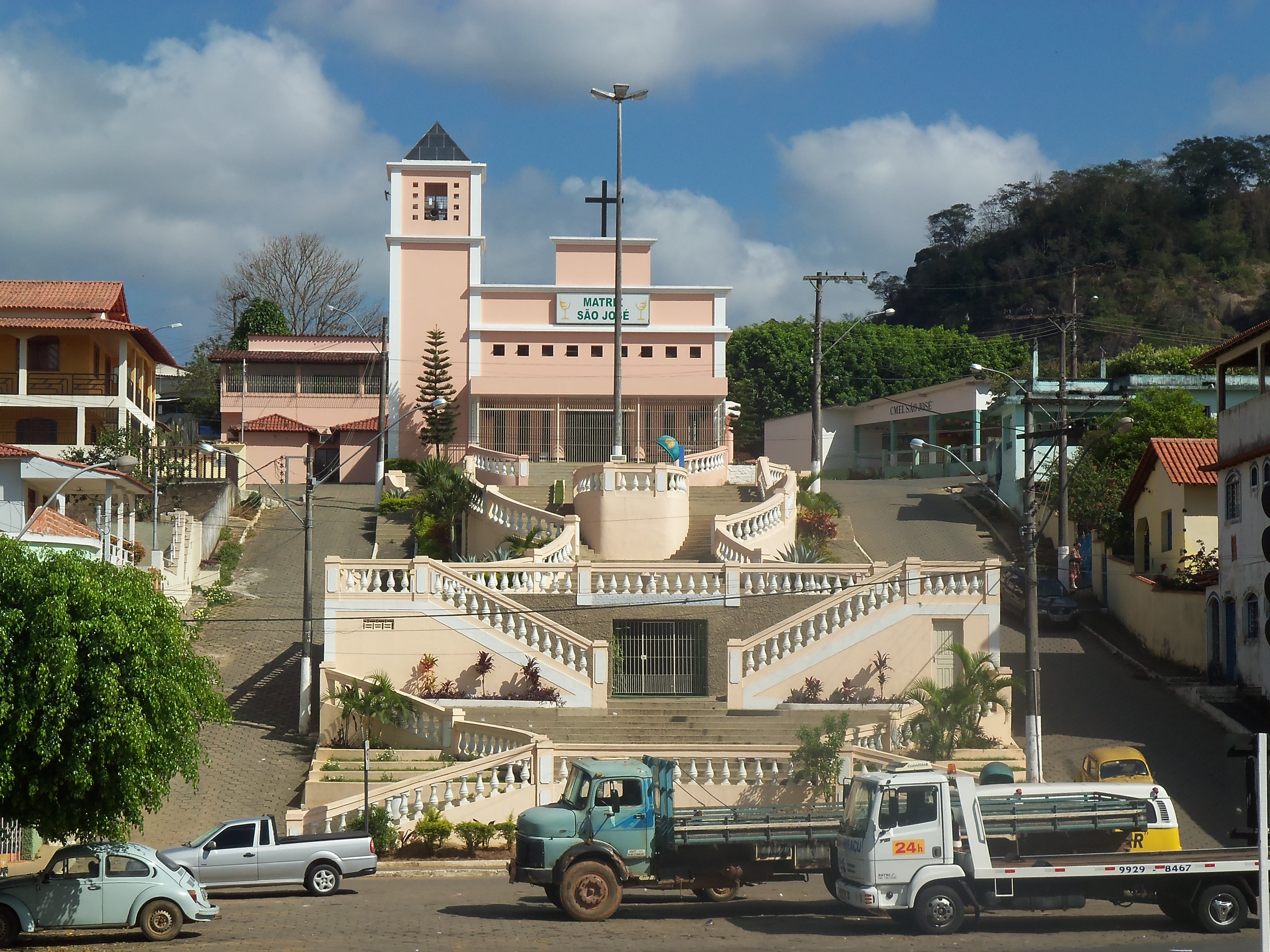 St. Joseph's Catholic Church and Chrysantho de Jesus Rocha Stairway, São José neighbourhood, Fundão, Espírito Santo, Brazil